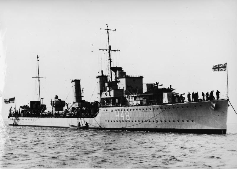 Hmcs Fraser At a buoy.